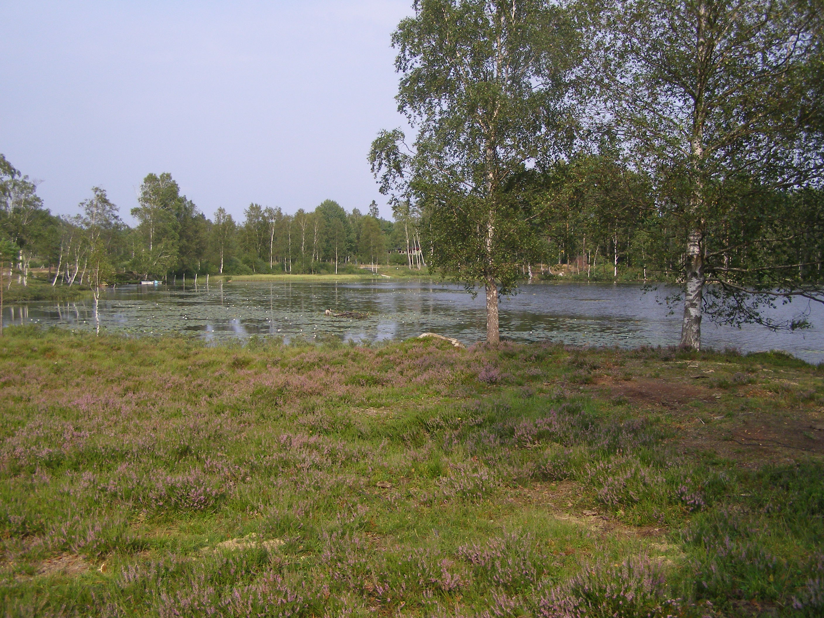 Mästocka ljunghed, nature reserve in Laholm Municipality, Halland.